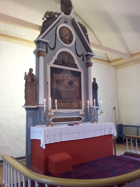 Altar area in Hosanger church, Osterøy, Norway